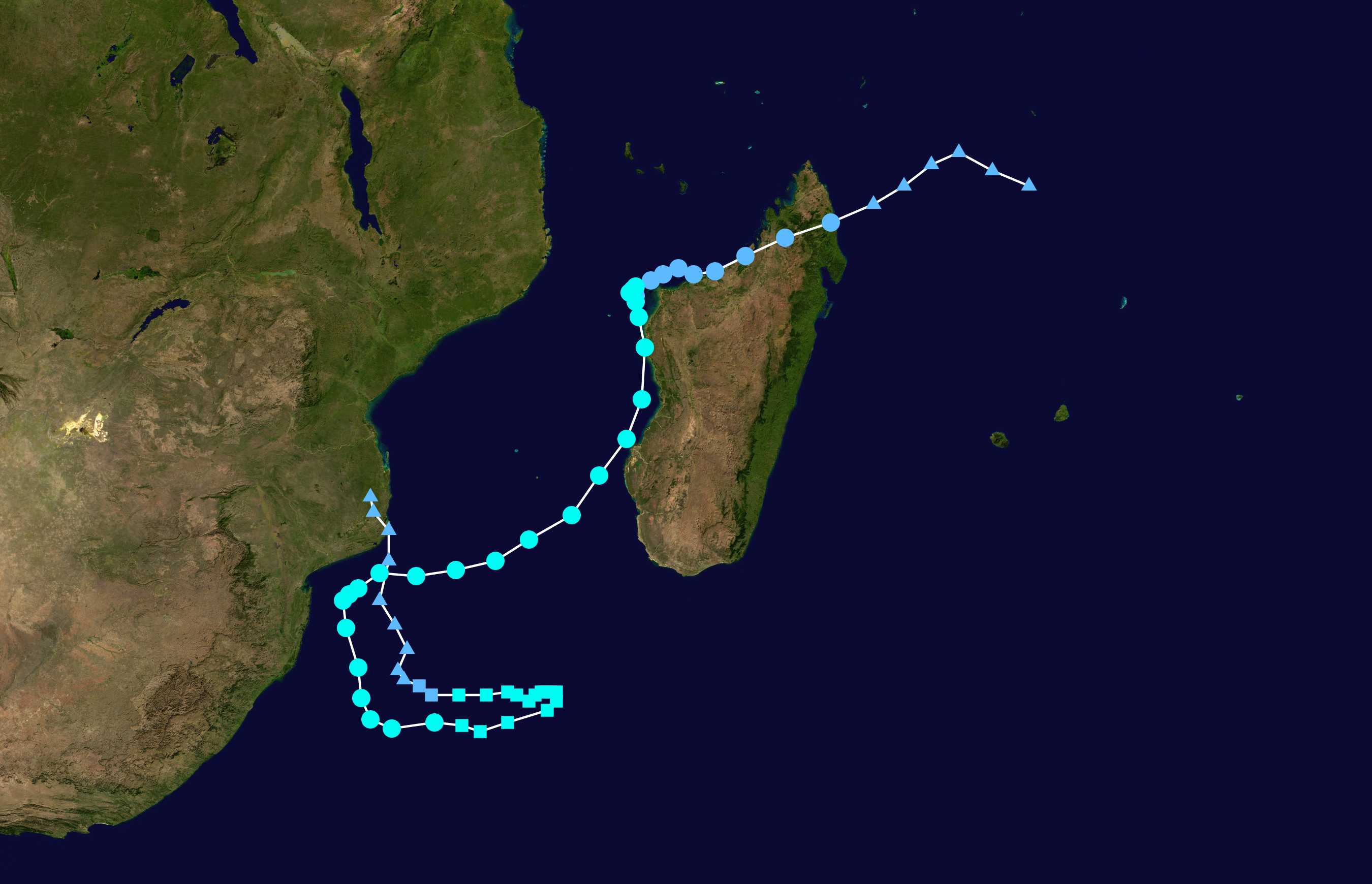 Track map of Severe Tropical Storm Irina of the 2011-12 South West Indian Ocean cyclone season. The points show the location of the storm at 6-hour intervals. The colour represents the storm's maximum sustained wind speeds as classified in the Saffir–Simpson scale (see below), and the shape of the data points represent the nature of the storm, according to the legend below. Saffir–Simpson scale Tropical depression≤38 mph≤62 km/h Category 3111–129 mph178–208 km/h Tropical storm39–73 mph63–118 km/h Category 4130–156 mph209–251 km/h Category 174–95 mph119–153 km/h Category 5≥157 mph≥252 km/h Category 296–110 mph154–177 km/h Unknown Storm type Tropical cyclone Subtropical cyclone Extratropical cyclone / Remnant low / Tropical disturbance / Monsoon depression